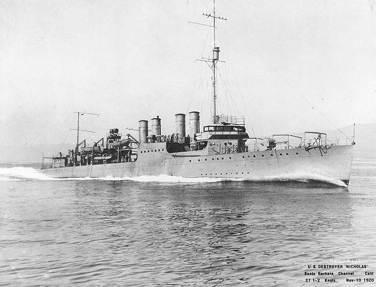 The U.S. Navy destroyer USS Nicholas (DD-311) making 27½ knots during builder's trials in the Santa Barbara Channel, California (USA), 10 November 1920. Her forward smokestack has been retouched to eliminate the builder's yard number painted there.